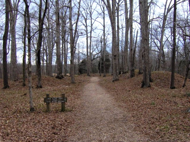 The ancient entrance to the Old Stone Fort, with two "pedestal" mounds on the left and right. The mounds and the structure's walls were built nearly 2000 years ago, during the Middle Woodland period. The Old Stone Fort, part of a state park, is located near Manchester, Tennessee, in the Southeastern United States.